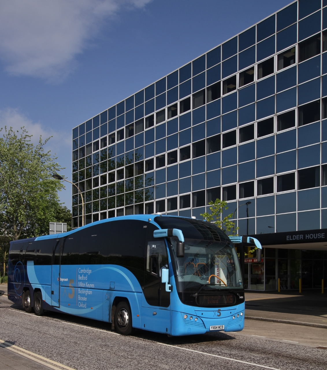 A Stagecoach East coach on route X5 approaching Milton Keynes Central railway station, Buckinghamshire. The coach is a Volvo B11R with Plaxton Elite body, registration mark YX64 WCD, fleet number 54301.